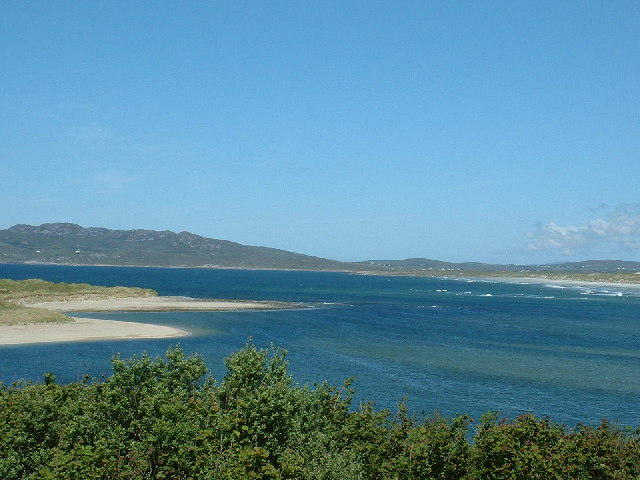 Gweebarra Bay, Donegal. Crohy Head in the distance